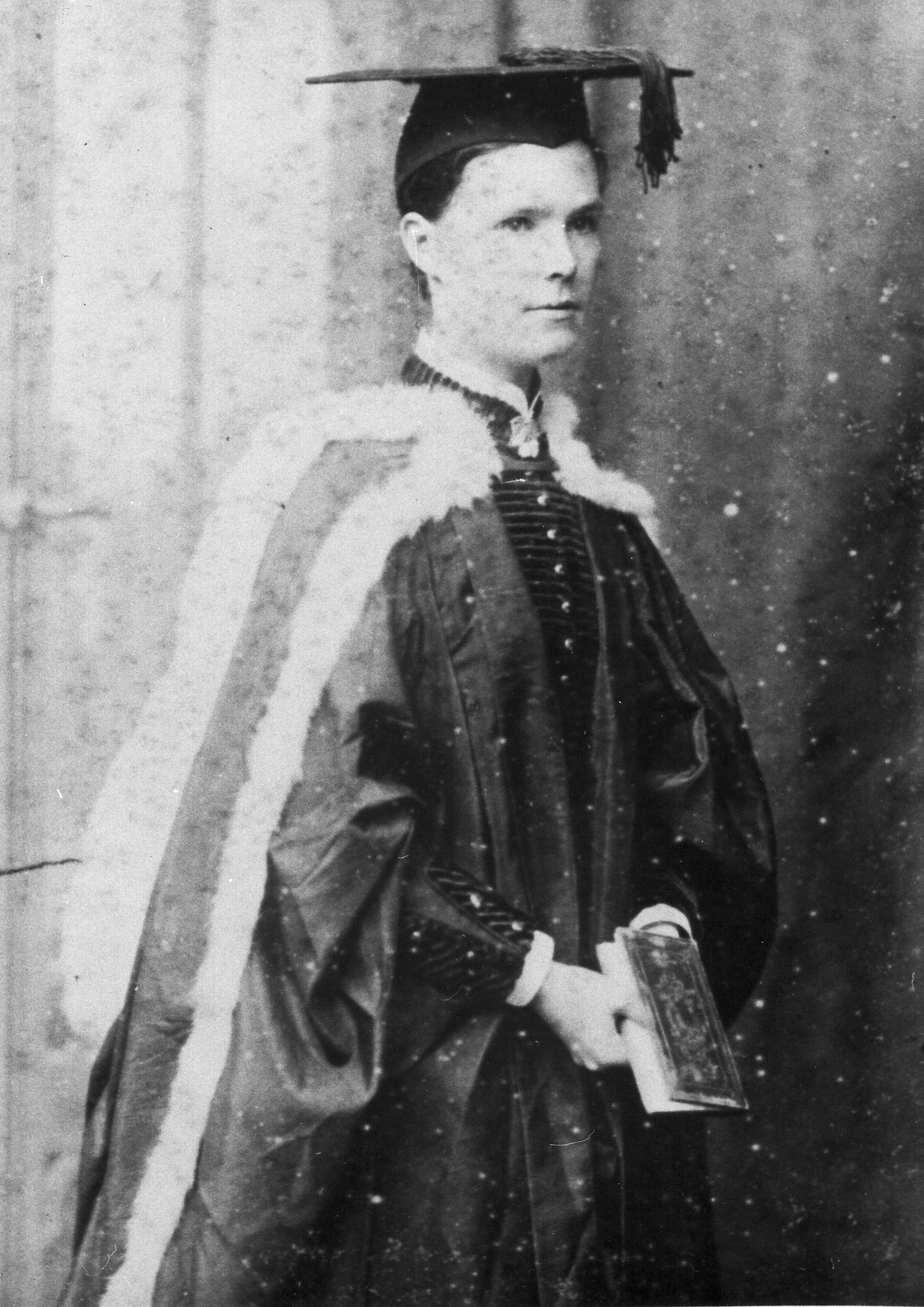 The Commemoration ceremony held in the Great Hall in 1885 was the first to have women graduates (two). One was (Mary) Elizabeth Brown, photo G3_224_1349 taken in 1885, University of Sydney Archives.